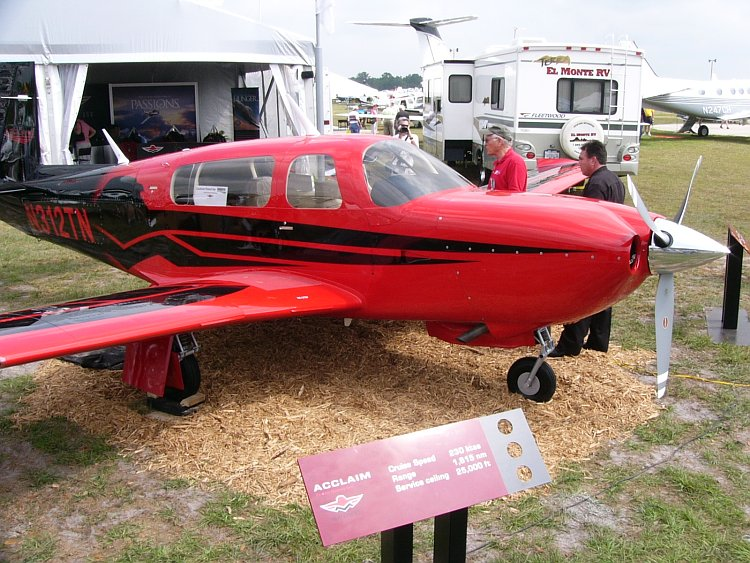 I took this photo of the prototype Mooney M20TN Acclaim (N312TN) at Sun 'n Fun 2006.